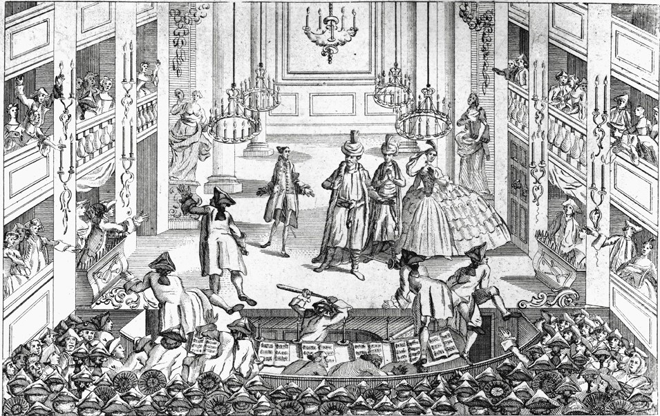 Riots at the Royal Opera House, Covent Garden during a 1763 performance of Thomas Arne's Artaxerxes after a decision to abolish half price admission fees after the interval.